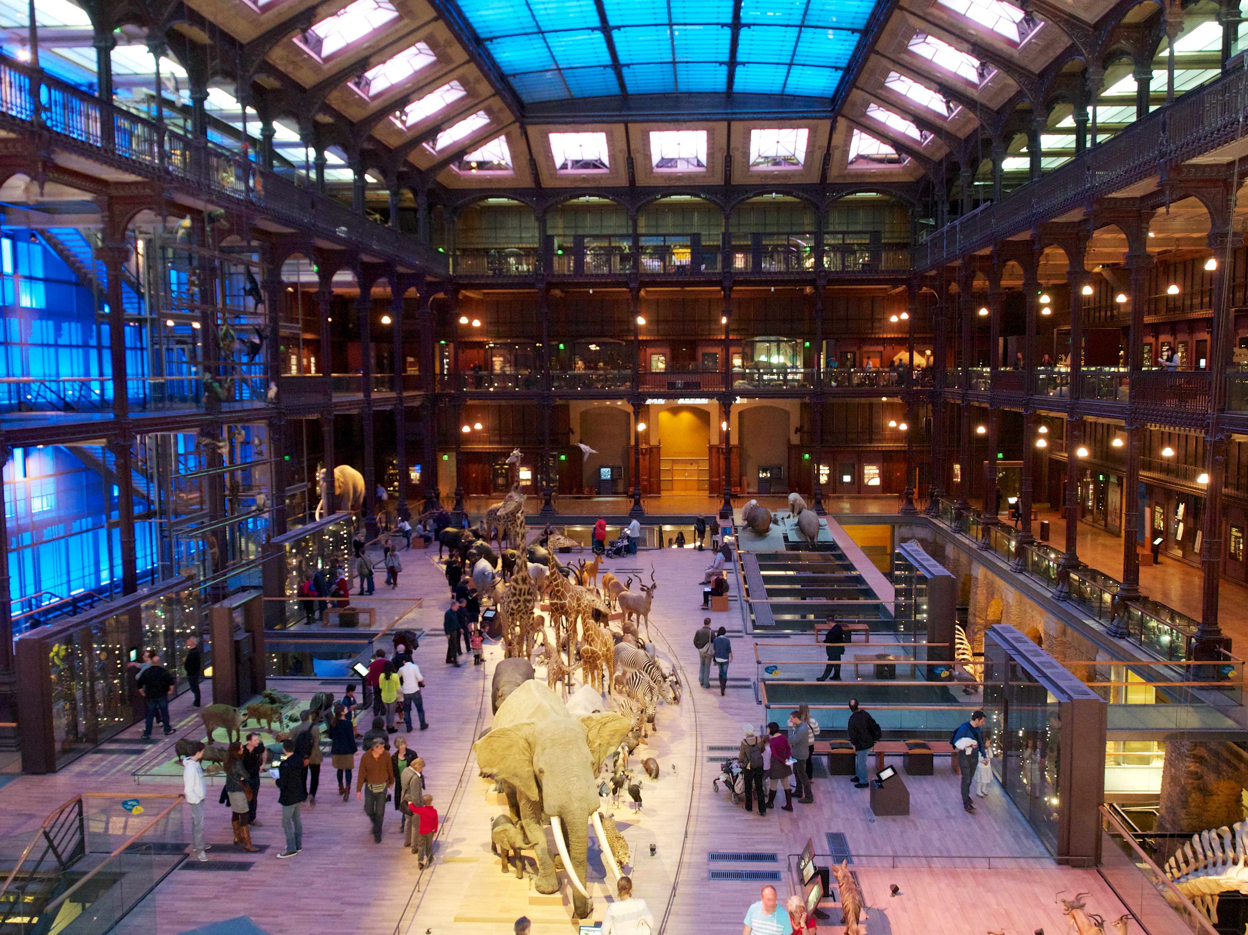 This is a view of the main central space inside the grande galerie de l'Évolution (called in English the Gallery of Evolution) of the French National Museum of Natural History, in Paris (France).